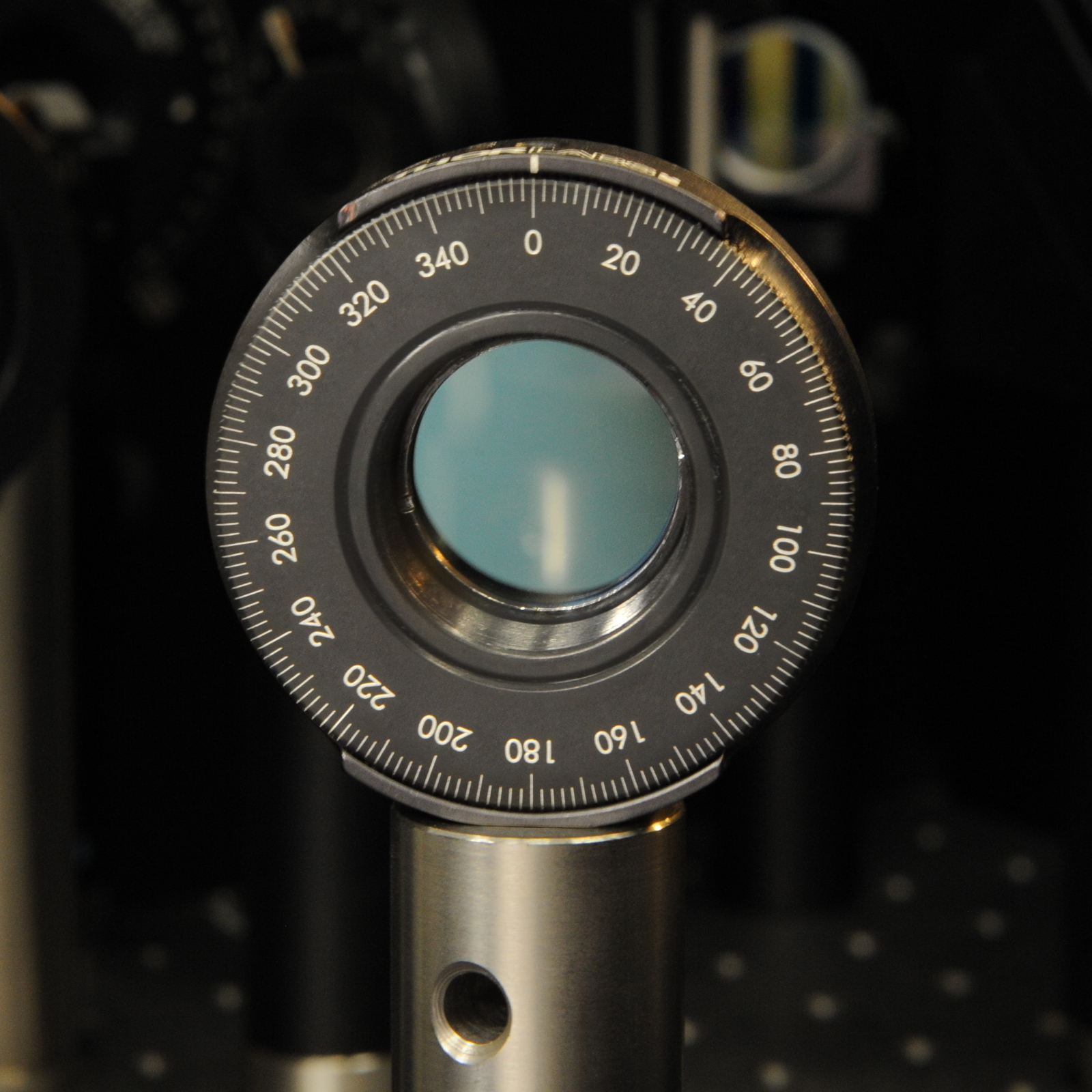 Photograph of a λ/2 waveplate (retarder) mounted in a 1-inch rotation mount. The waveplate shifts the phase of one specific linear polarization component of transmitted light with respect to the orthogonal one.